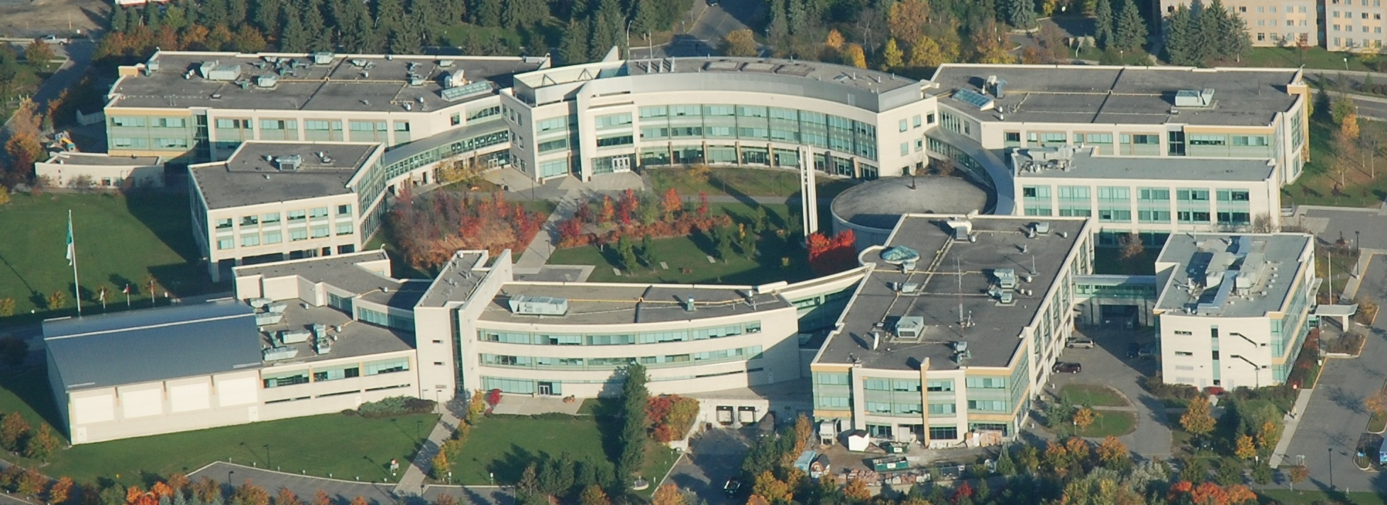 La Cité collégiale, Ottawa, Ontario, Canada, photographed from the air on 12 October 2008